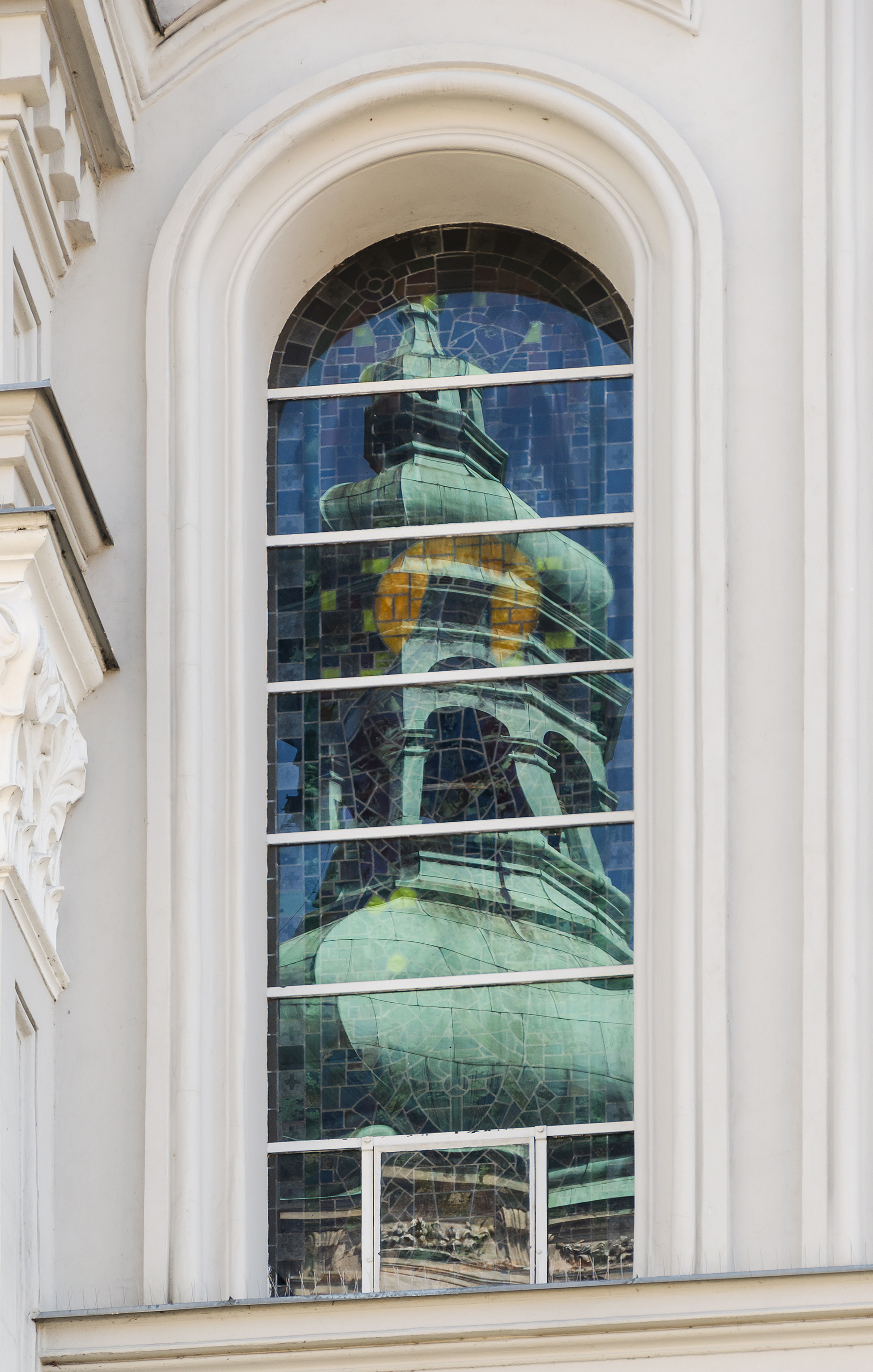 Convent of Saint Elizabeth in Nysa, window